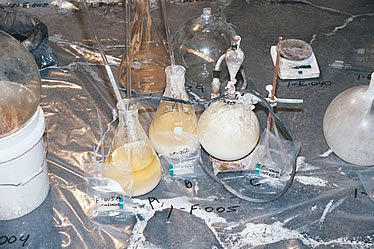 clandestine laboratory